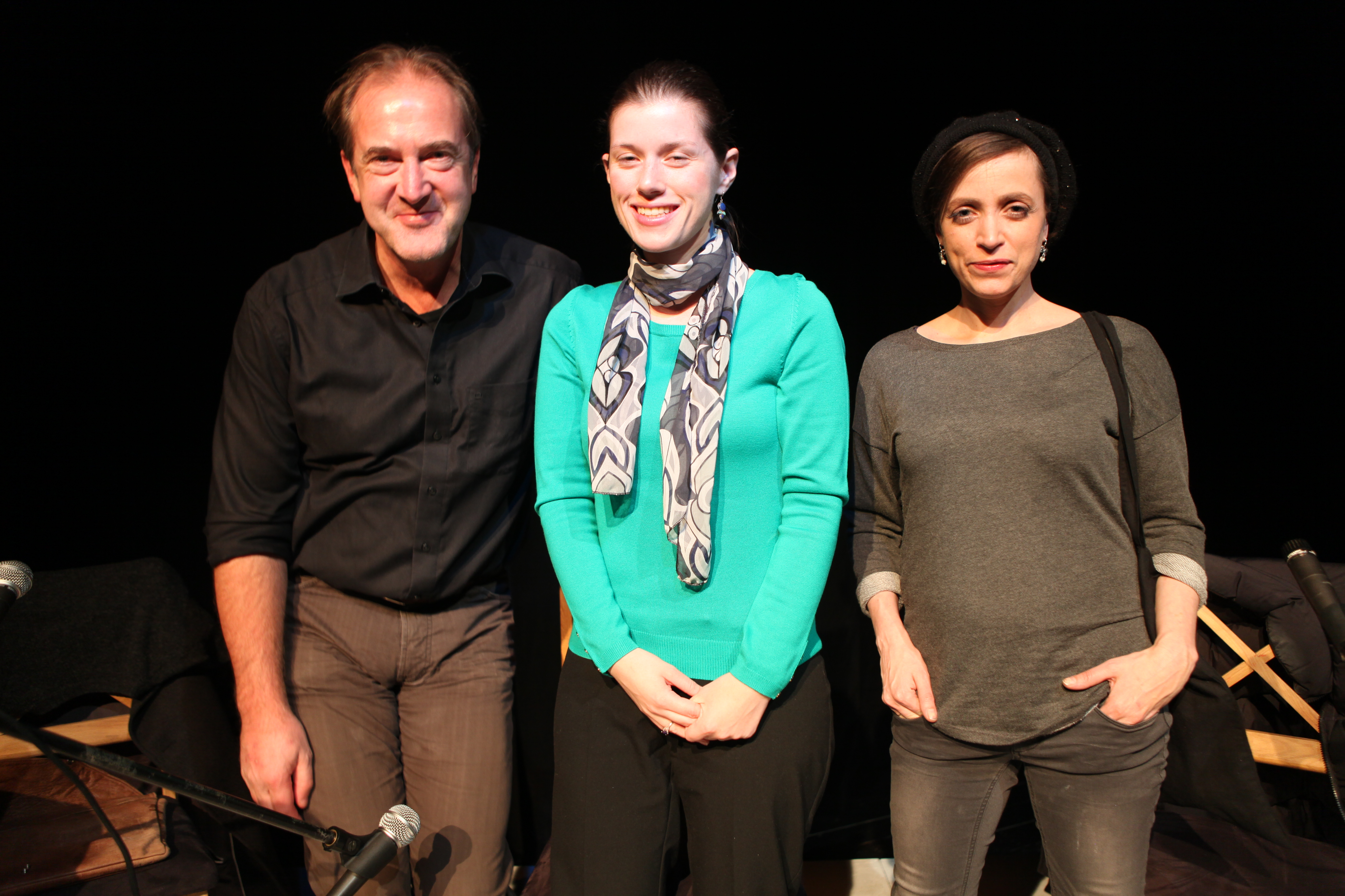 Bernhard Robben, Jennifer duBois and Anna Thalbach at the English Theatre Berlin